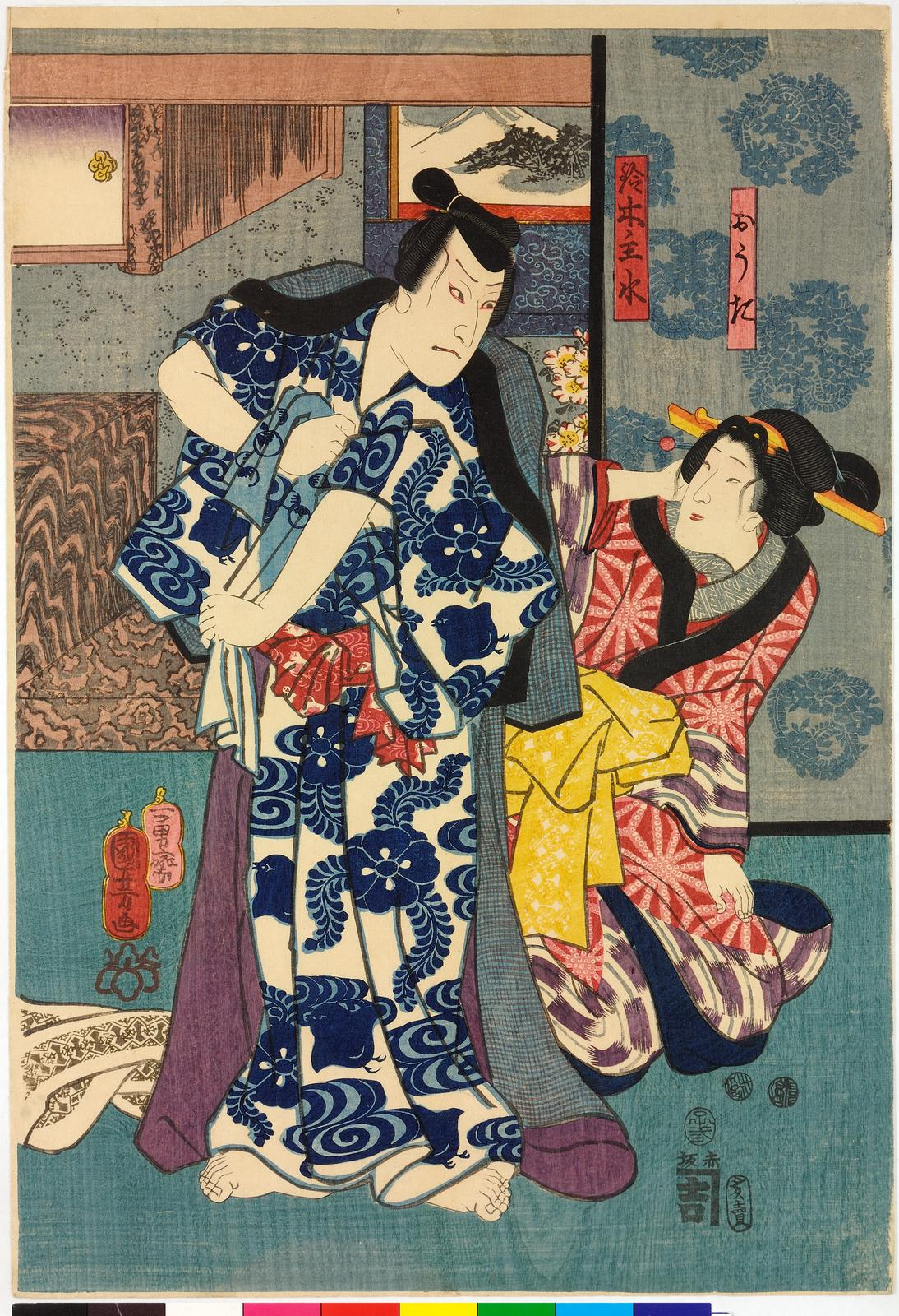 Woodblock triptych print, oban tate-e. Scene from a kabuki play set in the pleasure quarters: Shiraito of the Hashimotoya (R); Suzuki Mondo and Outa (C); Mondo's wife Oyaso and an entertainer (taikomochi) (L).